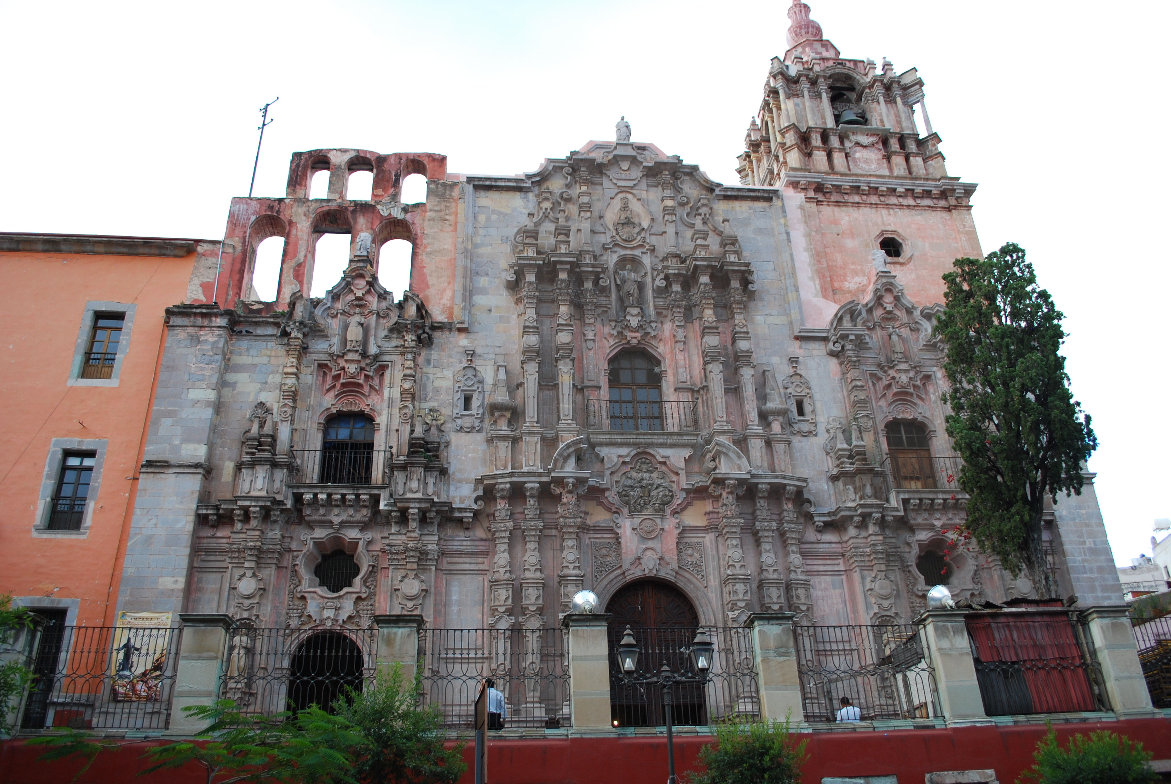 Oratorio de San Felipe Neri in Guanajuato, GTO, Mexico